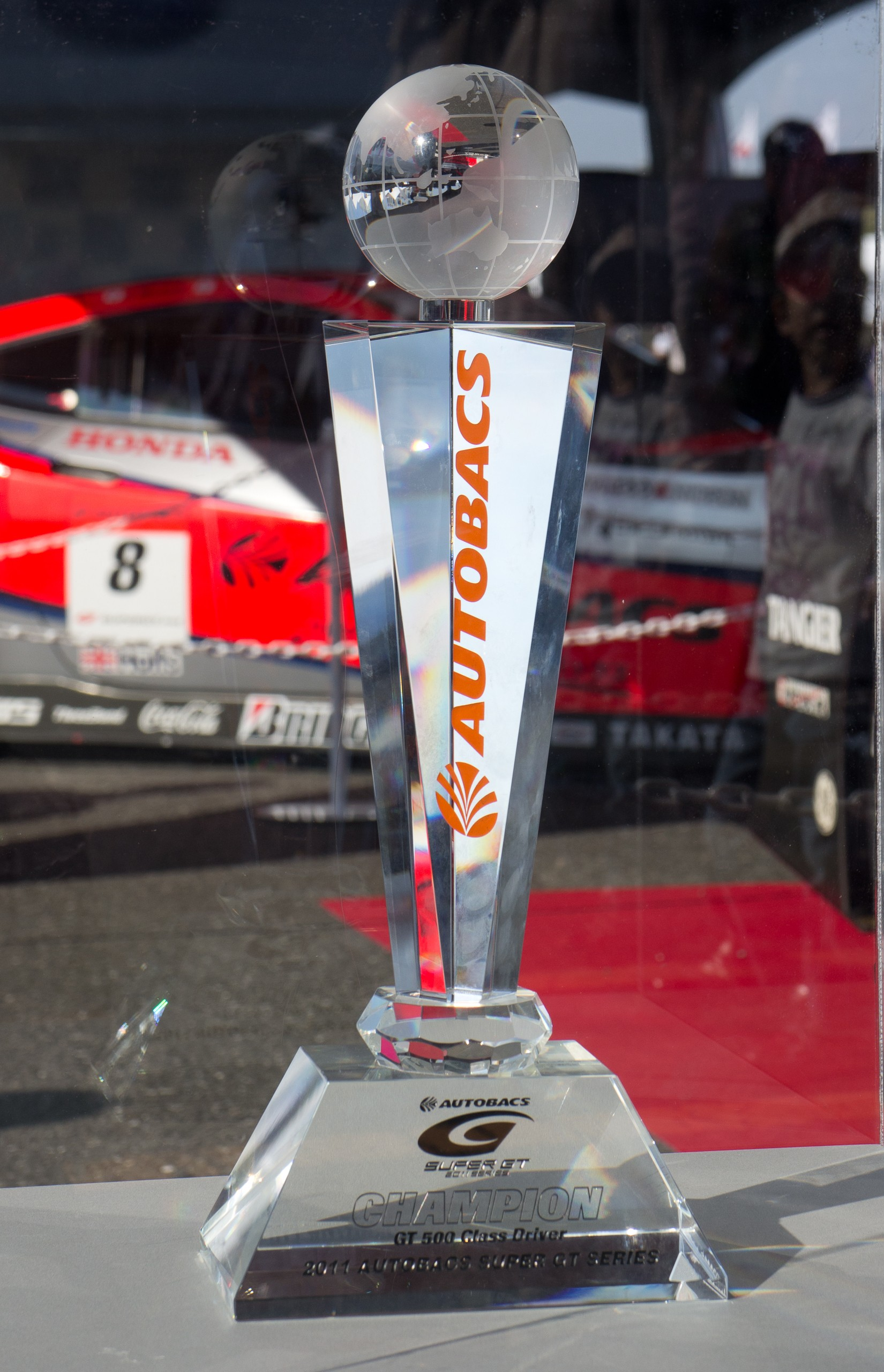 Motorsport Japan 2011: 2011 Super GT GT500 class drivers' champion trophy for Ronnie Quintarelli (Mola) and Masataka Yanagida (Mola).